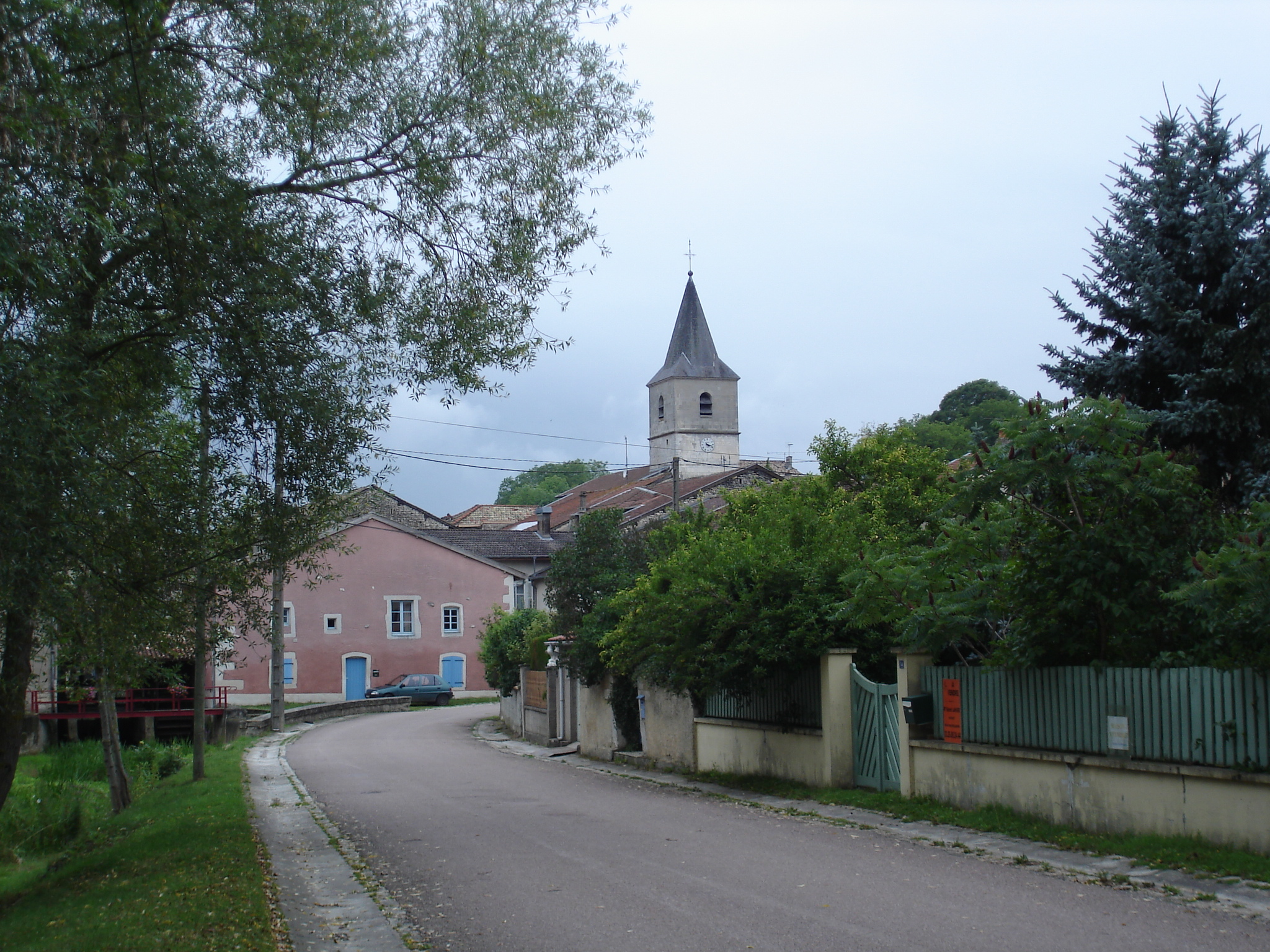 View of the village of Ourches-sur-Meuse (Meuse)